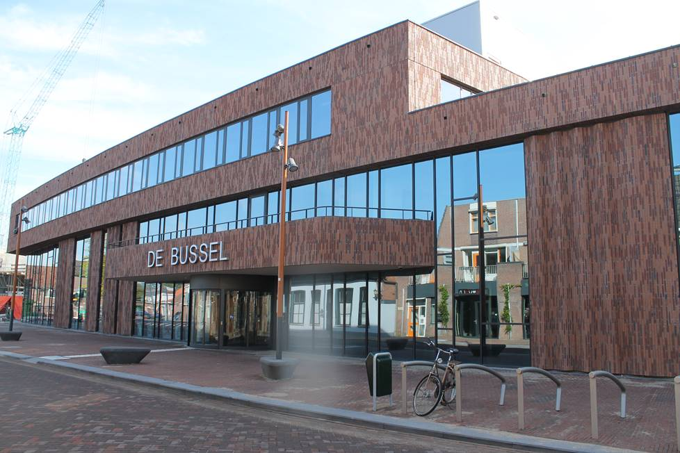 foto nieuwe bussel Oosterhout